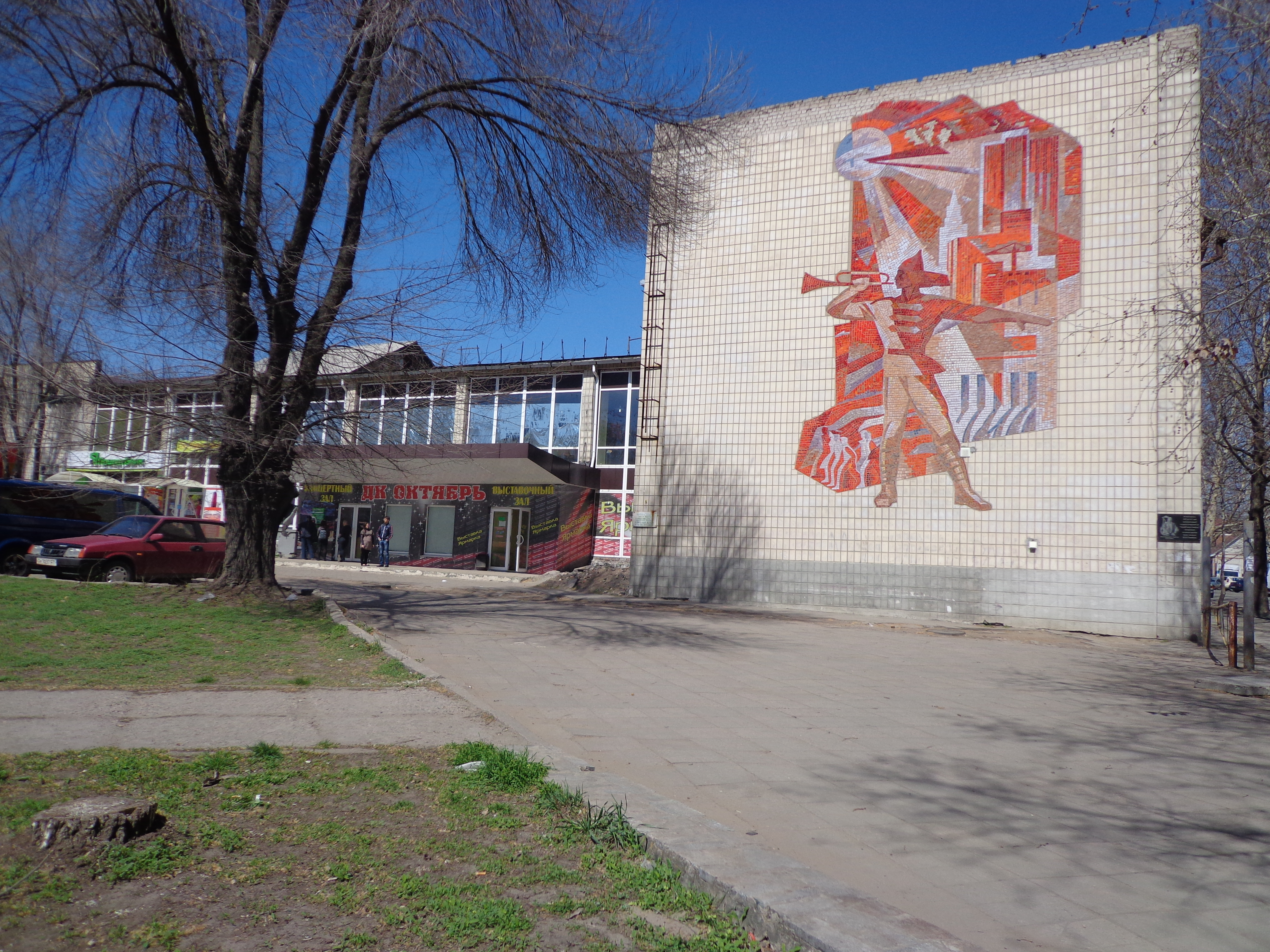 Palace of Culture "Oktyabr'" (October) in Melitopol, Ukraine